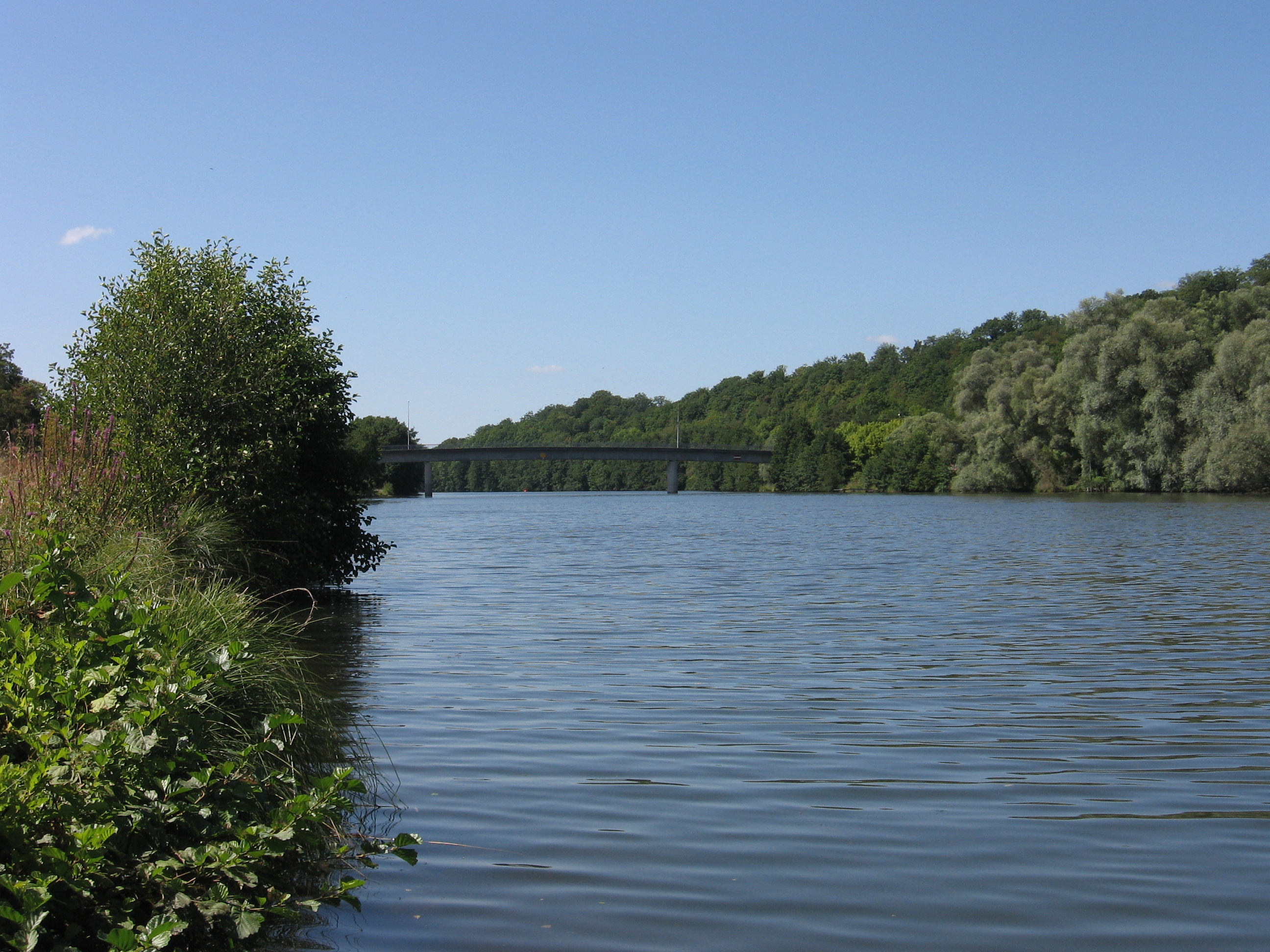 bridge Moselle at Pierre-la-Treiche